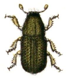 Dendroctonus micans, from Calwer's Käferbuch, Table 30, Picture 8. Taxonomy was updated to 2008, using mostly the sites Fauna Europaea and BioLib. Please contact Sarefo if the determination is wrong!